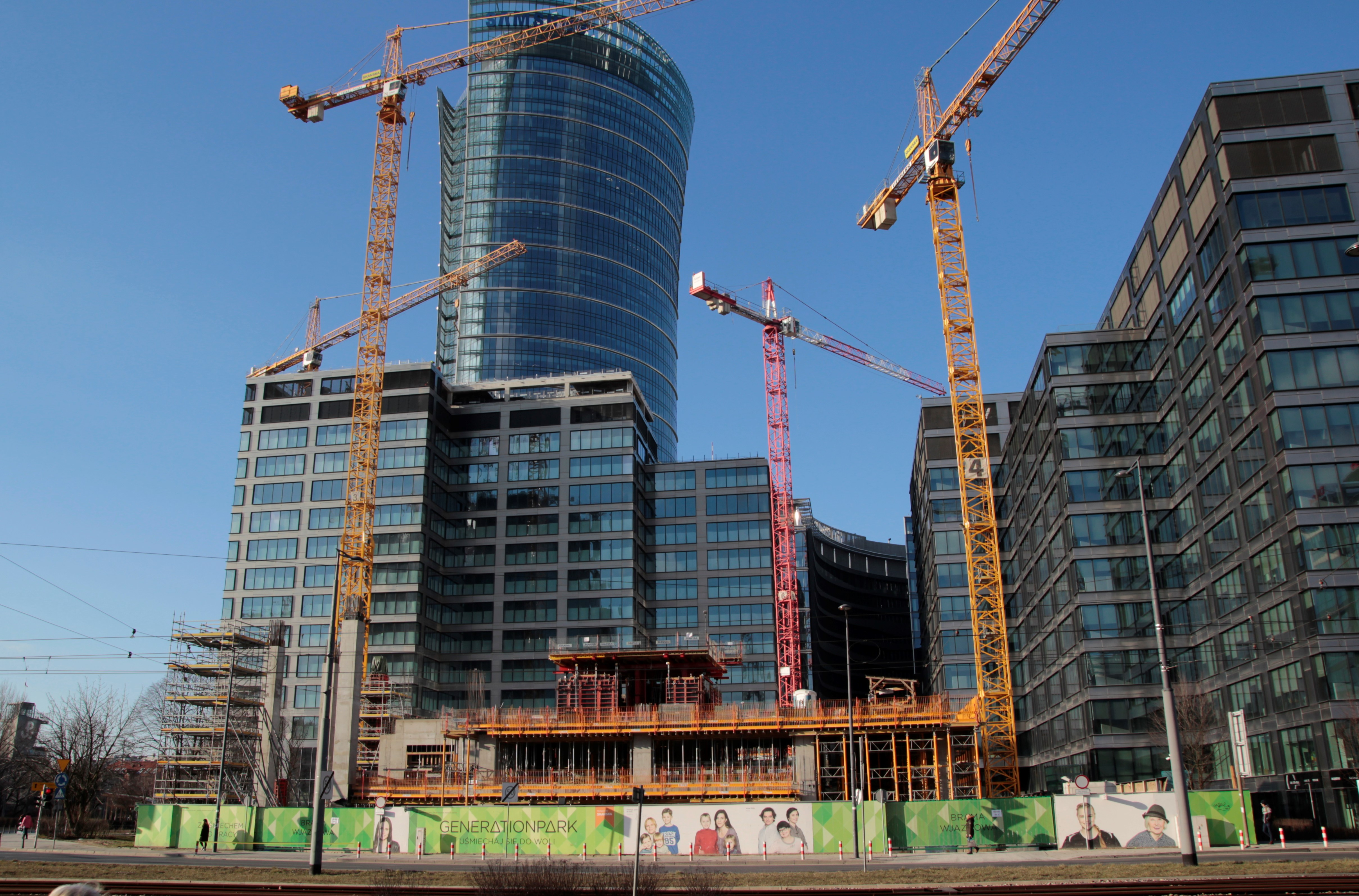 Generation Park, Warsaw, under construction, Skanska